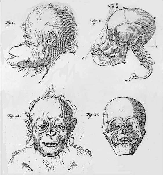 4 views of the head of a orangutan; in profile with skull in profile and from the front with skull from the front. Published in Natuurkundige Verhandelingen over den Orang-outang: en eenige andere aap-soorten : over den Rhinoceros met den dubbelen horen, en over het Rendier, by Petrus Camper, 1782, p 122